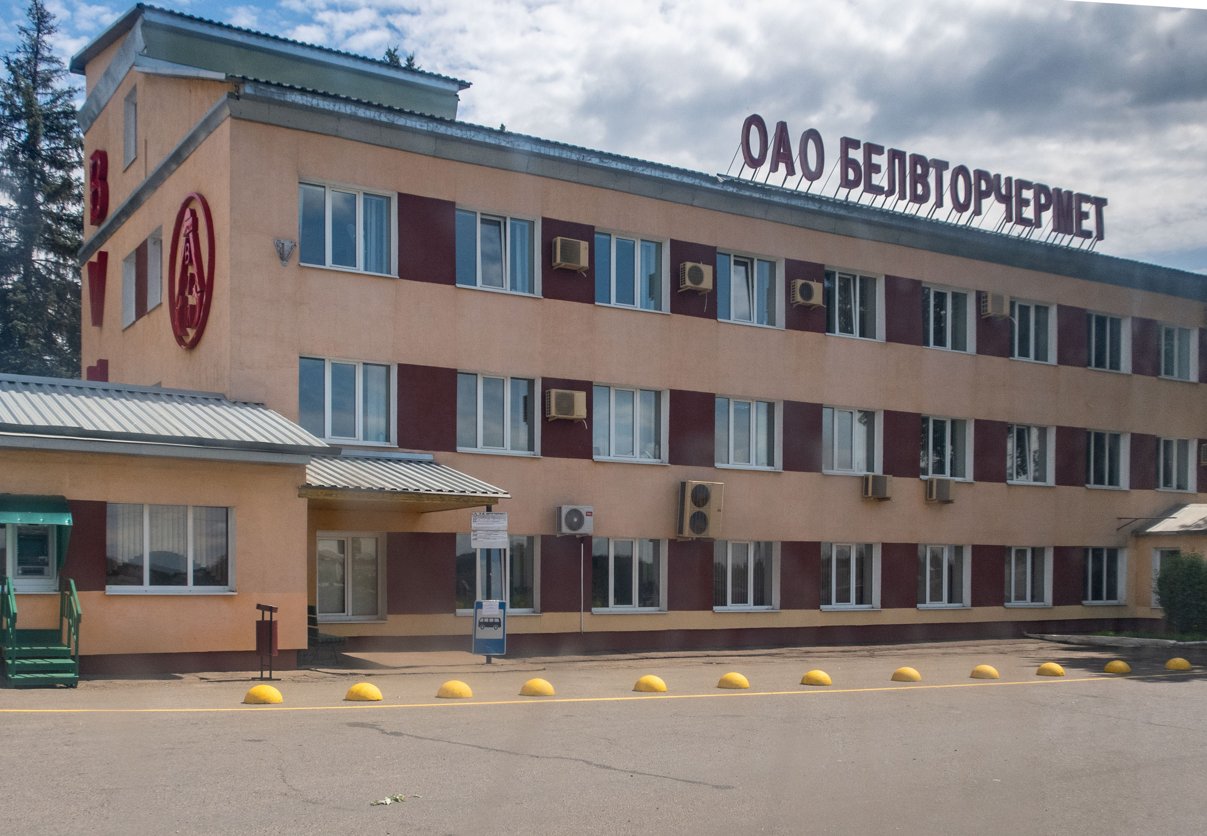 Hatava. Minsk district, Belarus